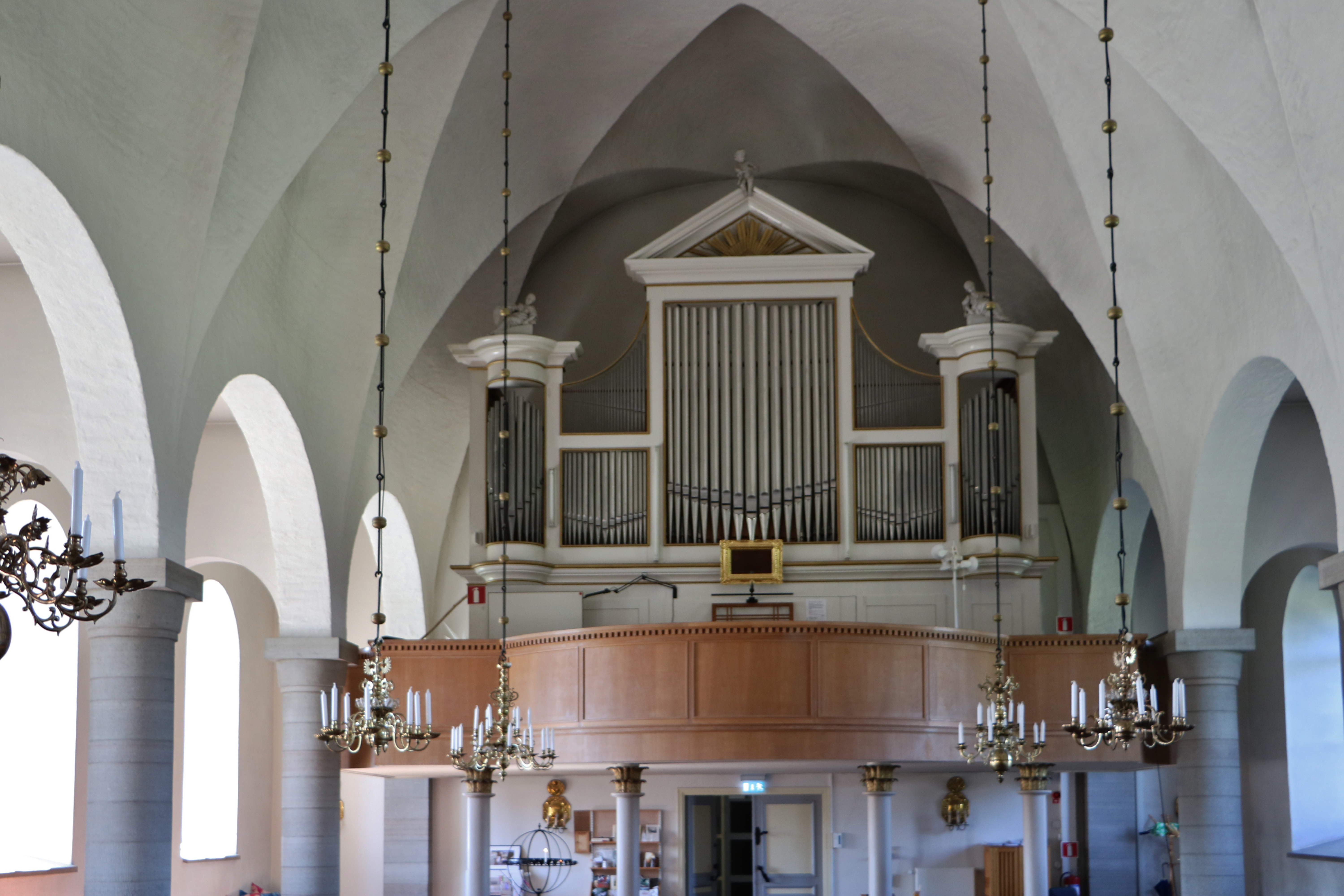 Köping Church.The organ with front drawn by J W Gers 1827